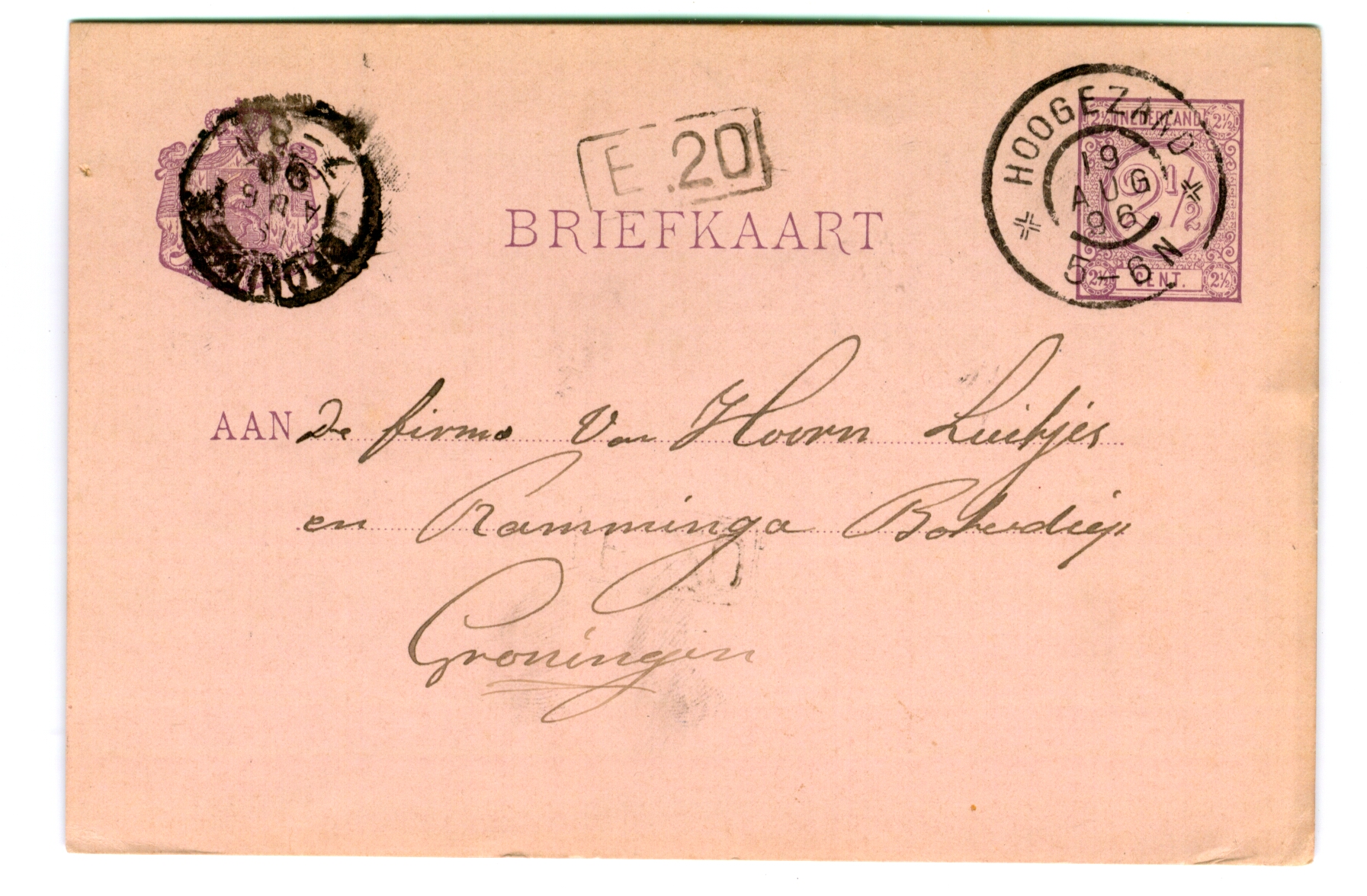 Dutch postal card, cancelled Hoogezand 1896-08-19